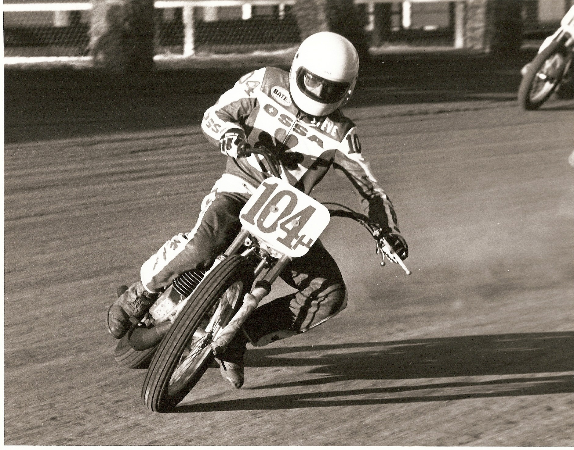 Steve Butler leading the pack on his way to a heat race win the Greenville, OH 1/2 mile dirt track. Shot taken exiting turn 2. Image from 1978.